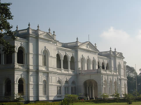 National Museum of Colombo